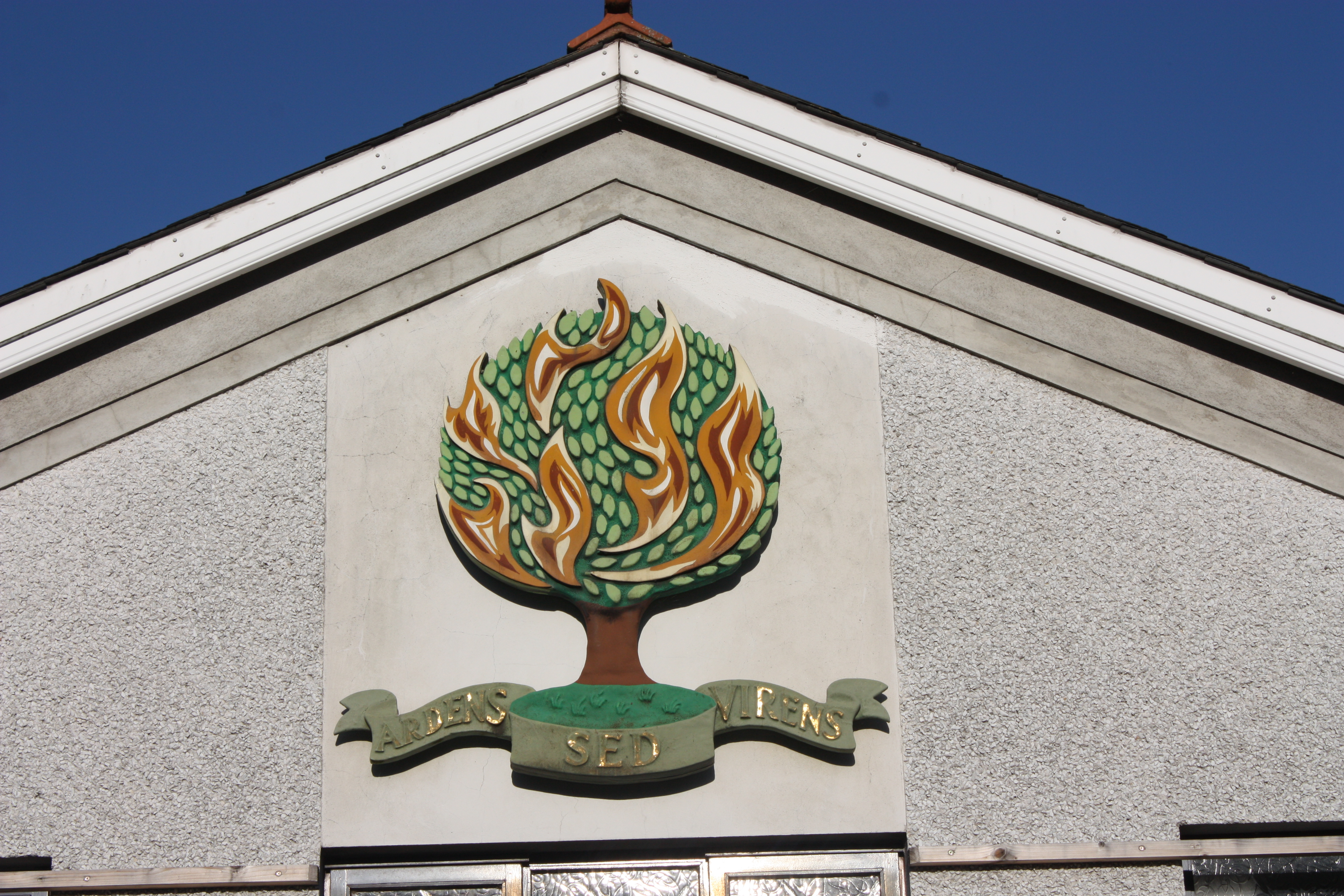 Ballynahinch Free Presbyterian Church, Dromore Road, Ballynahinch, County Down, Northern Ireland, November 2010